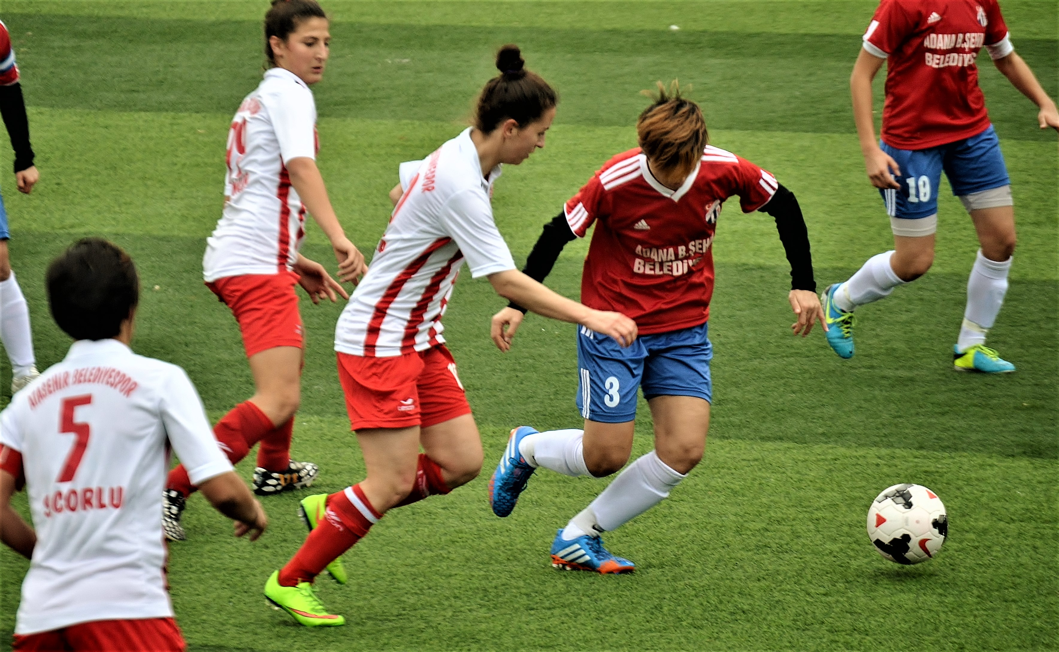 Fatma Kara (white/red) of Ataşehir Belediyespor is challenged by Zehra Borazancı (red/blue) of Adana İdmanyıurduspor in the 2014-15 Turkish Women's Fiesr Football league match.